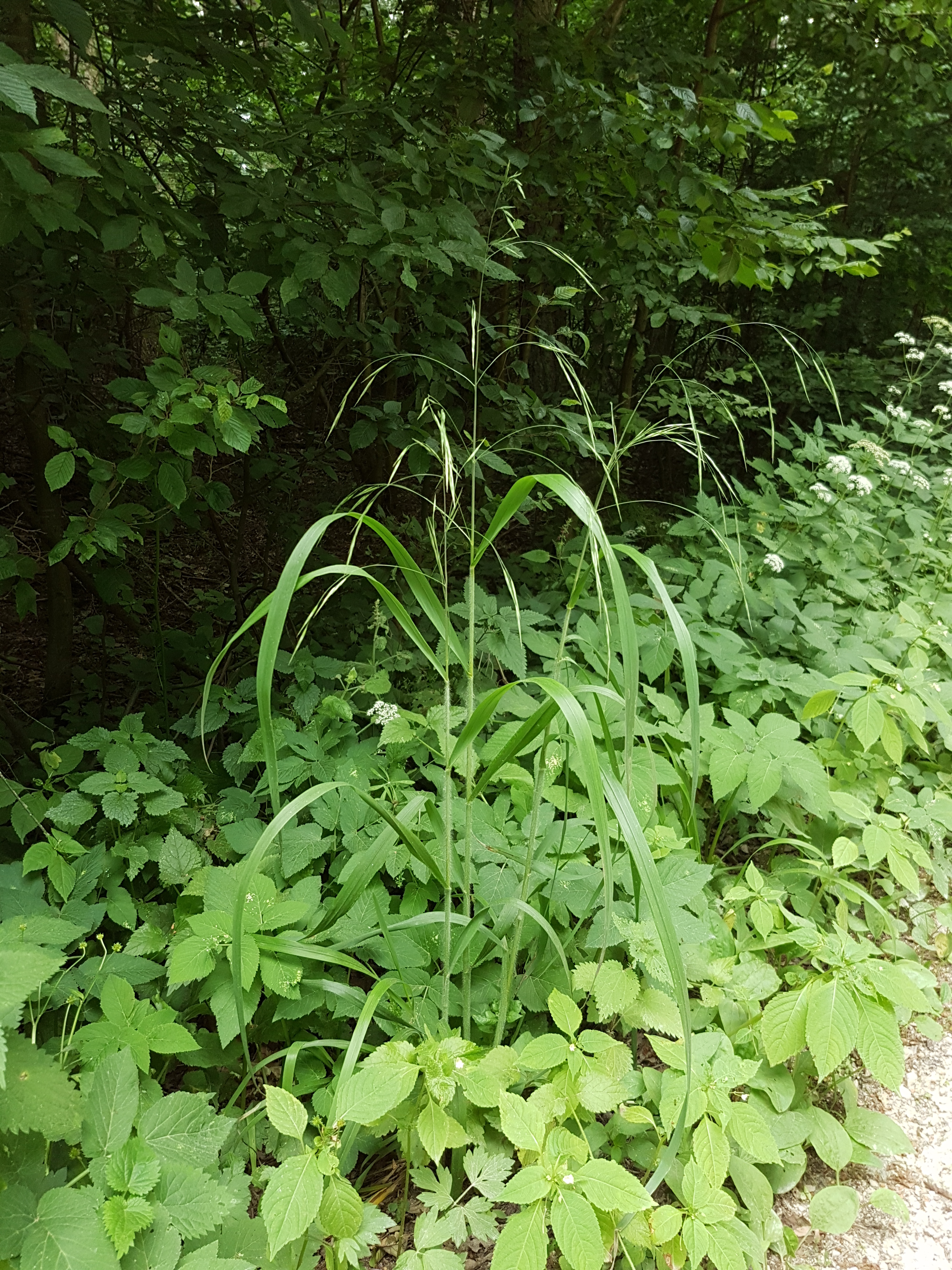 Habitus Taxonym: Bromus ramosus ss Fischer et al. EfÖLS 2008 ISBN 978-3-85474-187-9 Location: Ernstbrunner Wald west to Klement, district Korneuburg, Lower Austria - ca. 330 m a.s.l. Habitat: wood